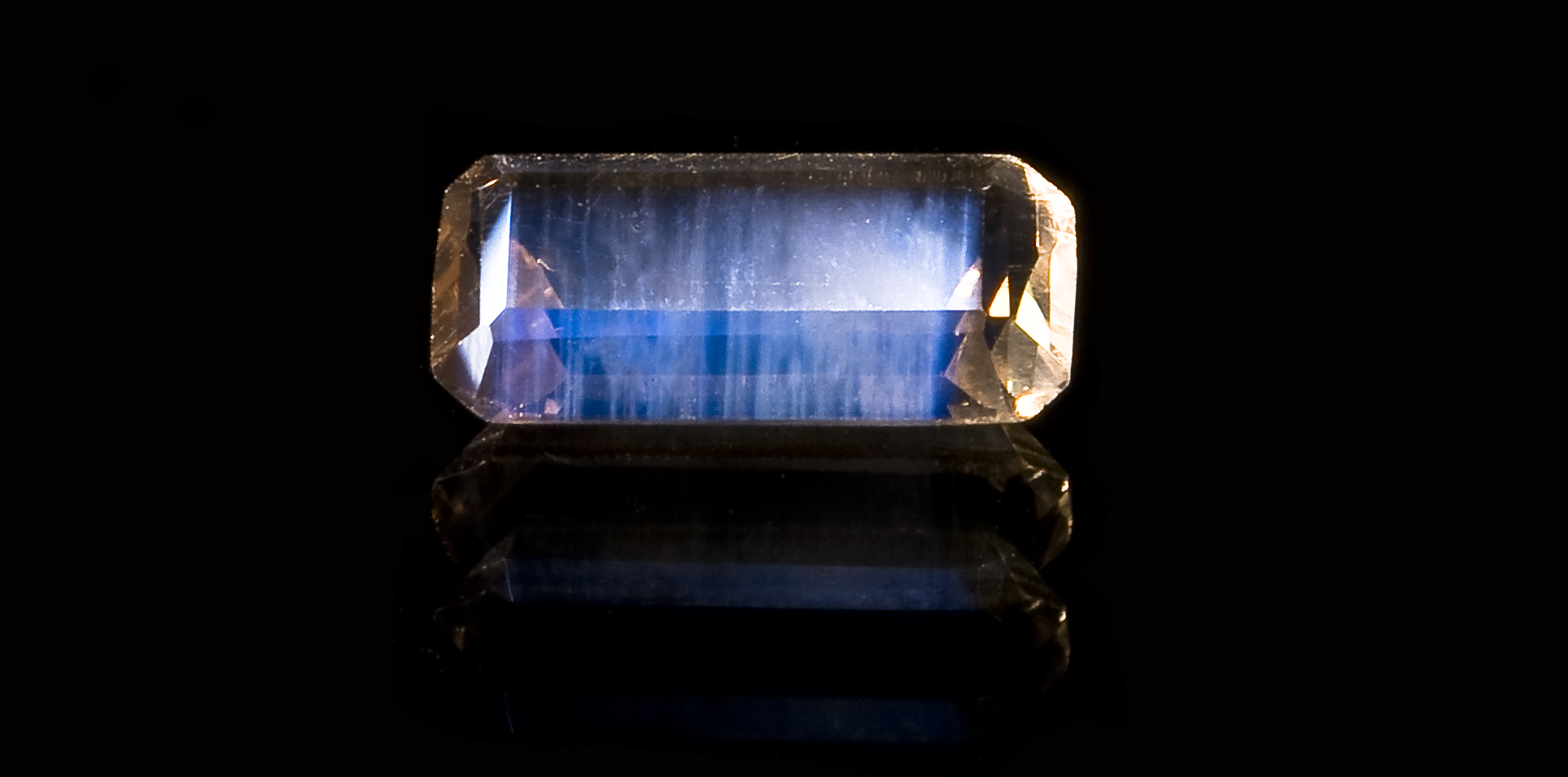 Azulicite (Var. of Sanidine) - cut, 3.60 carat Locality : Mina La Pili, Carmago, Chihuahua, Mexico